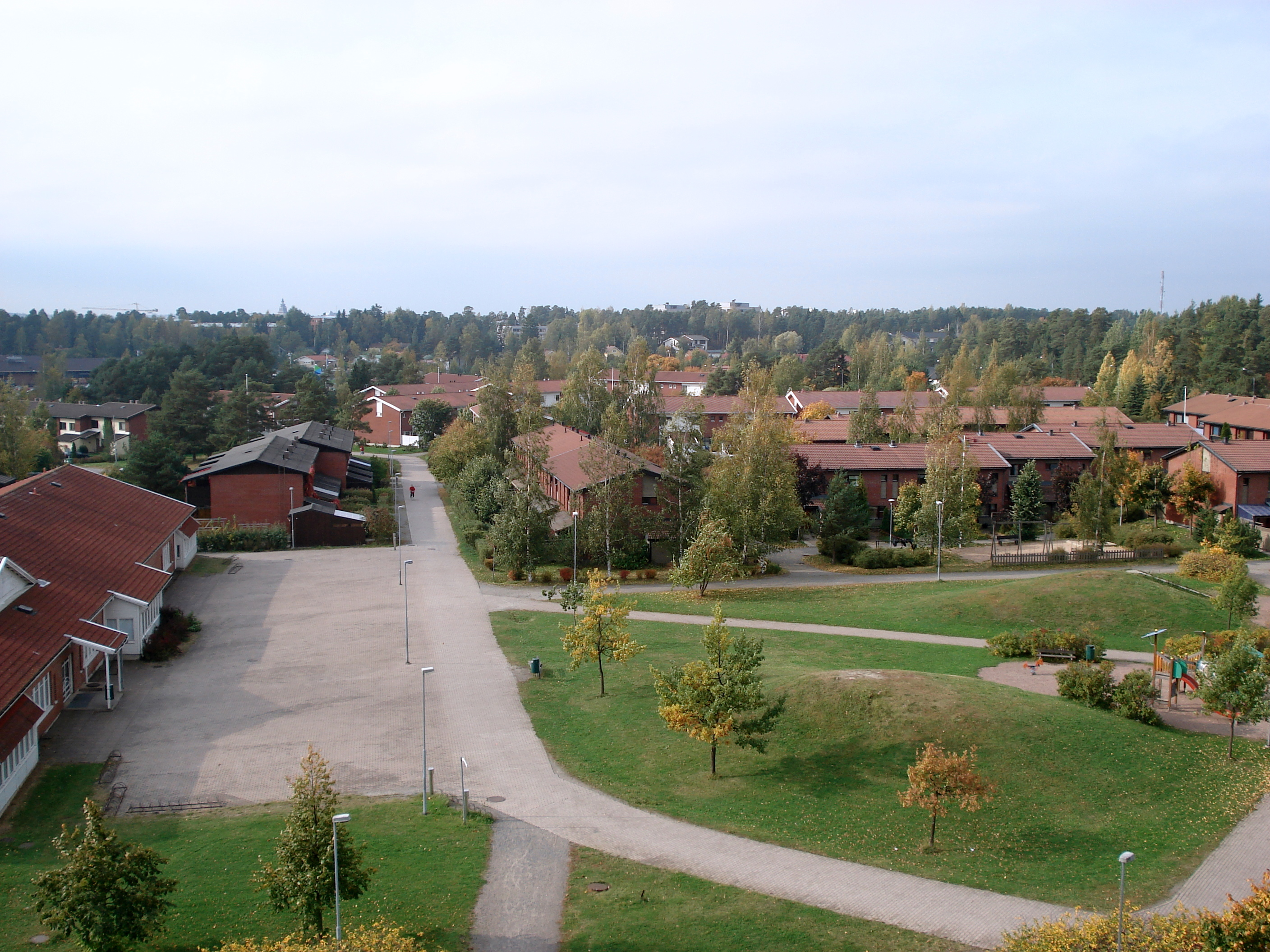 District of Karvetti, in the city of Naantali, Finland.